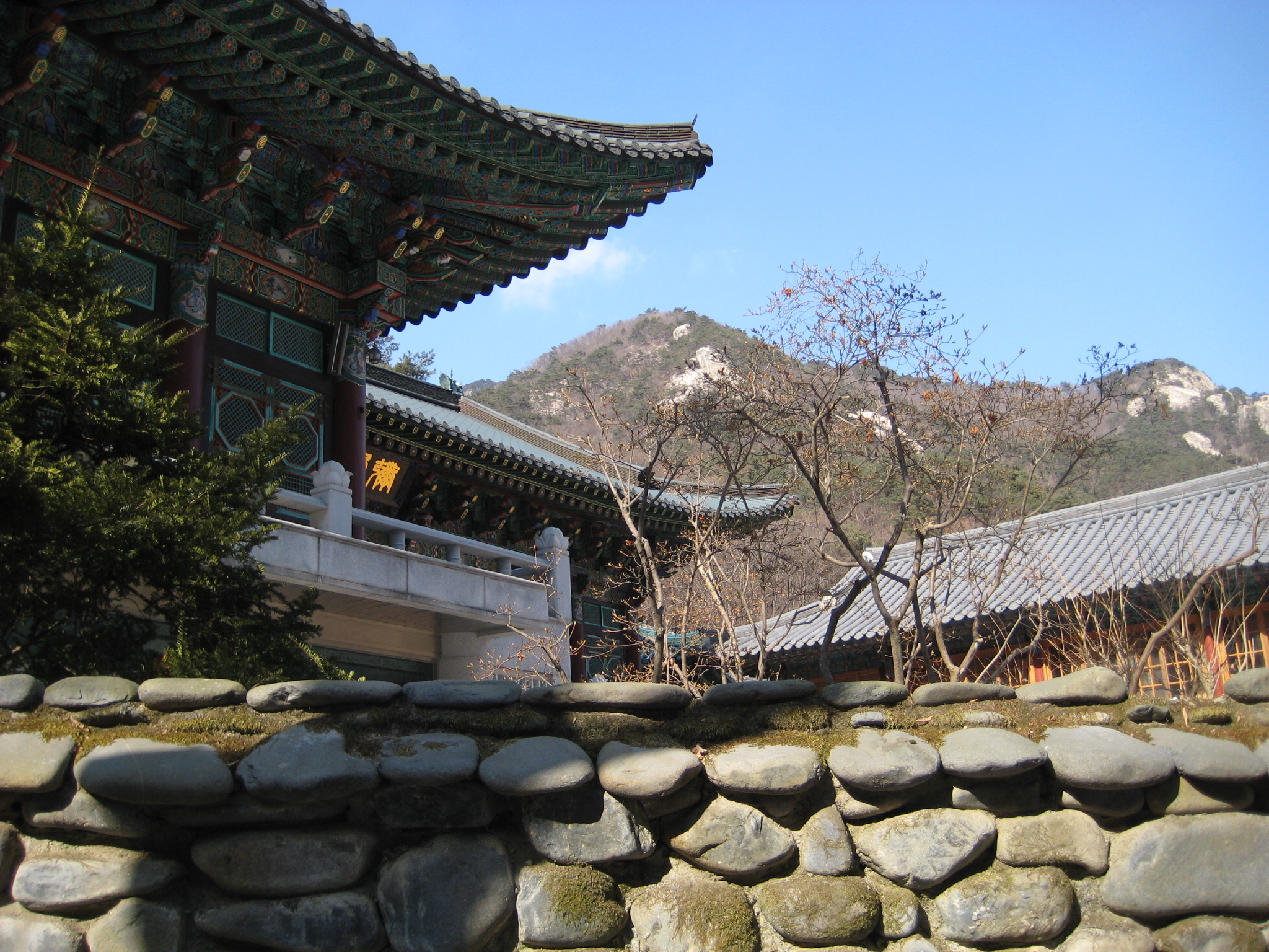 Donghaksa Temple, Daejeon, South Korea